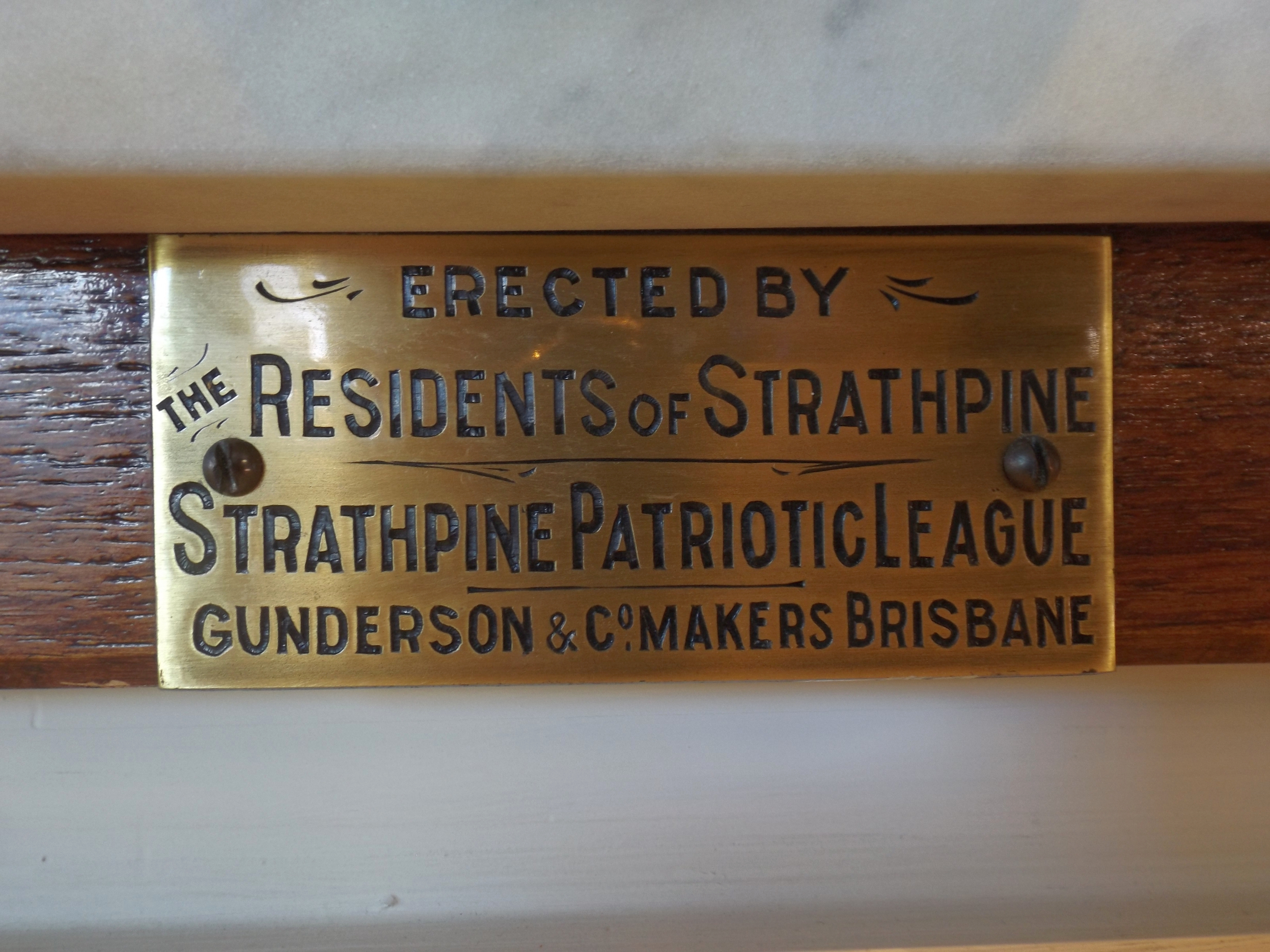 Photo of the plaque at the base of the Strathpine Honour Board in RSL club at Kallangur, Moreton Bay Region, Queensland, Australia.